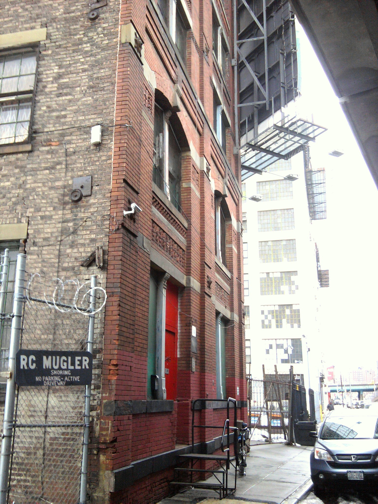 Looking north along 3d Avenue at Beethoven Piano factory on a cloudy afternoon.